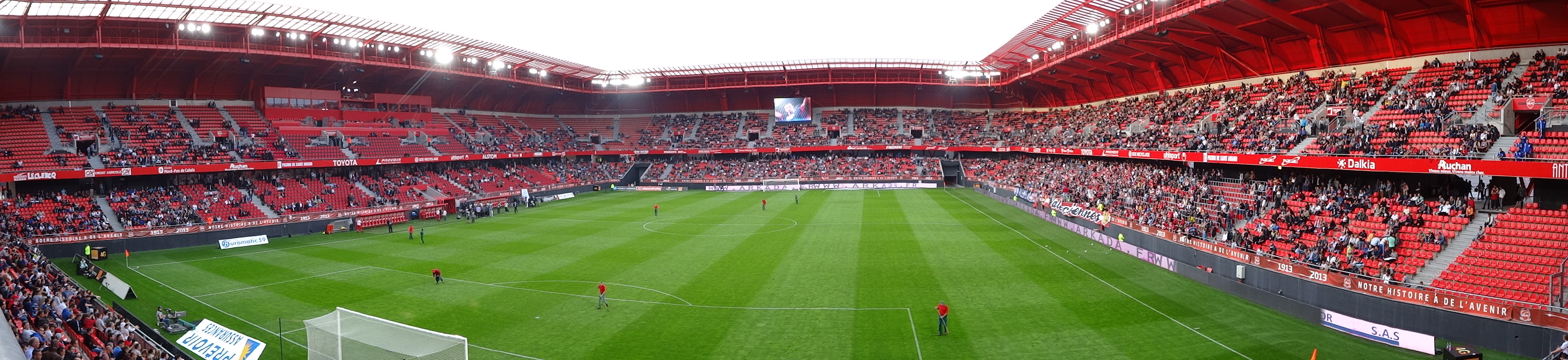 Stade du Hainaut, Valenciennes, panorama